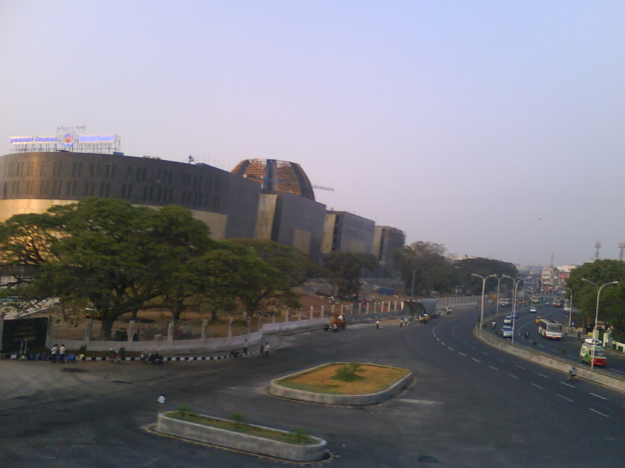 Tamil Nadu Seretariat Assembly Building, Anna Salai, Chennai